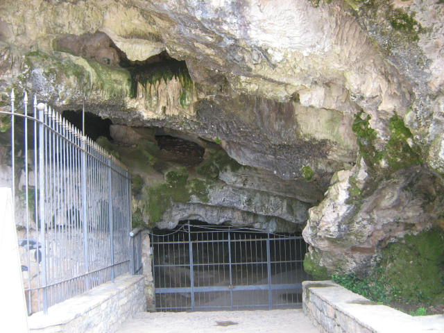 The gate at the entrance at the caves of Castelcivita